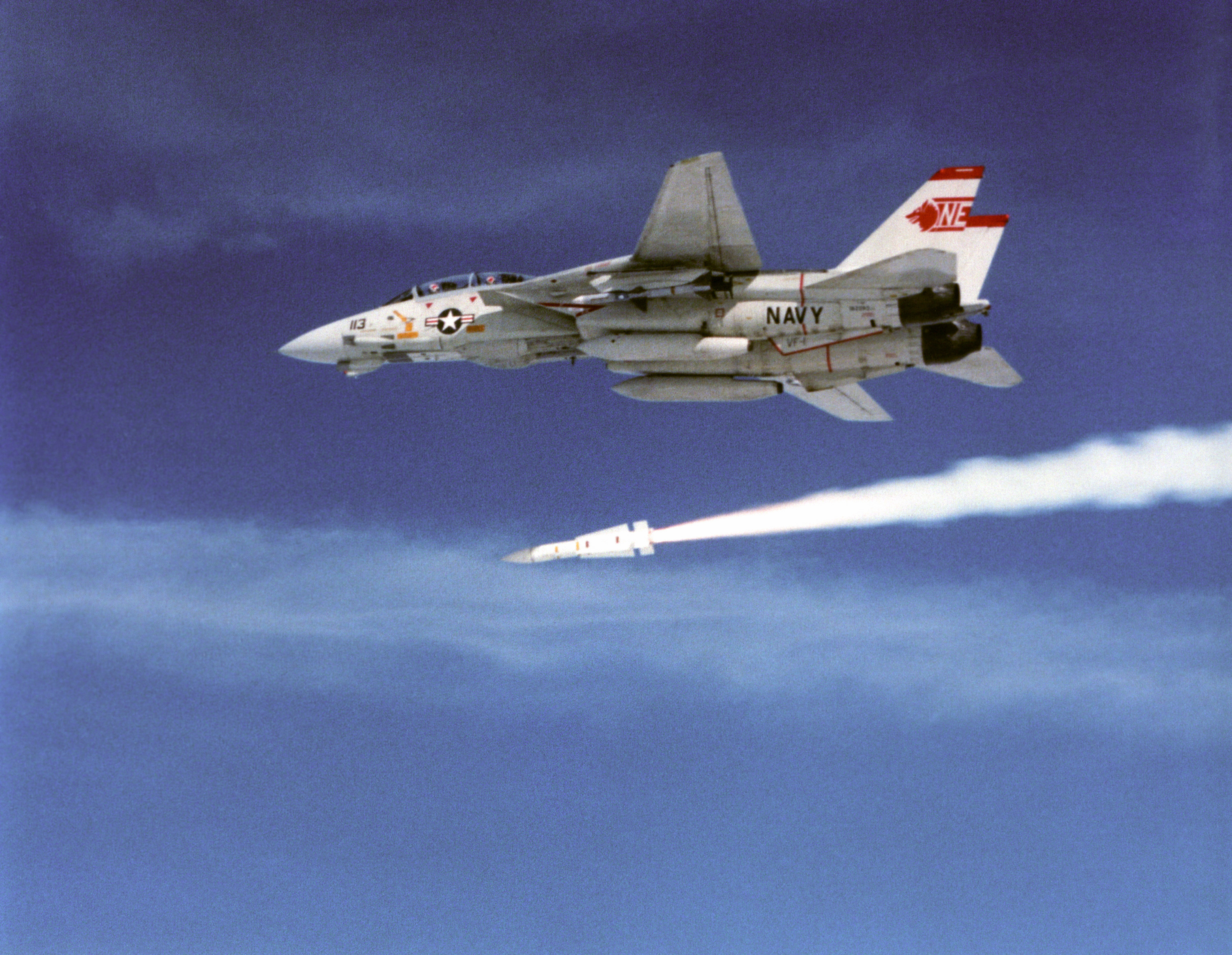 A U.S. Navy Grumman F-14A Tomcat from fighter squadron VF-1 Wolfpack launching an AIM-54 Phoenix missile. VF-1 was assigned to Carrier Air Wing 2 (CVW-2) aboard the aircraft carrier USS Ranger (CV-61).